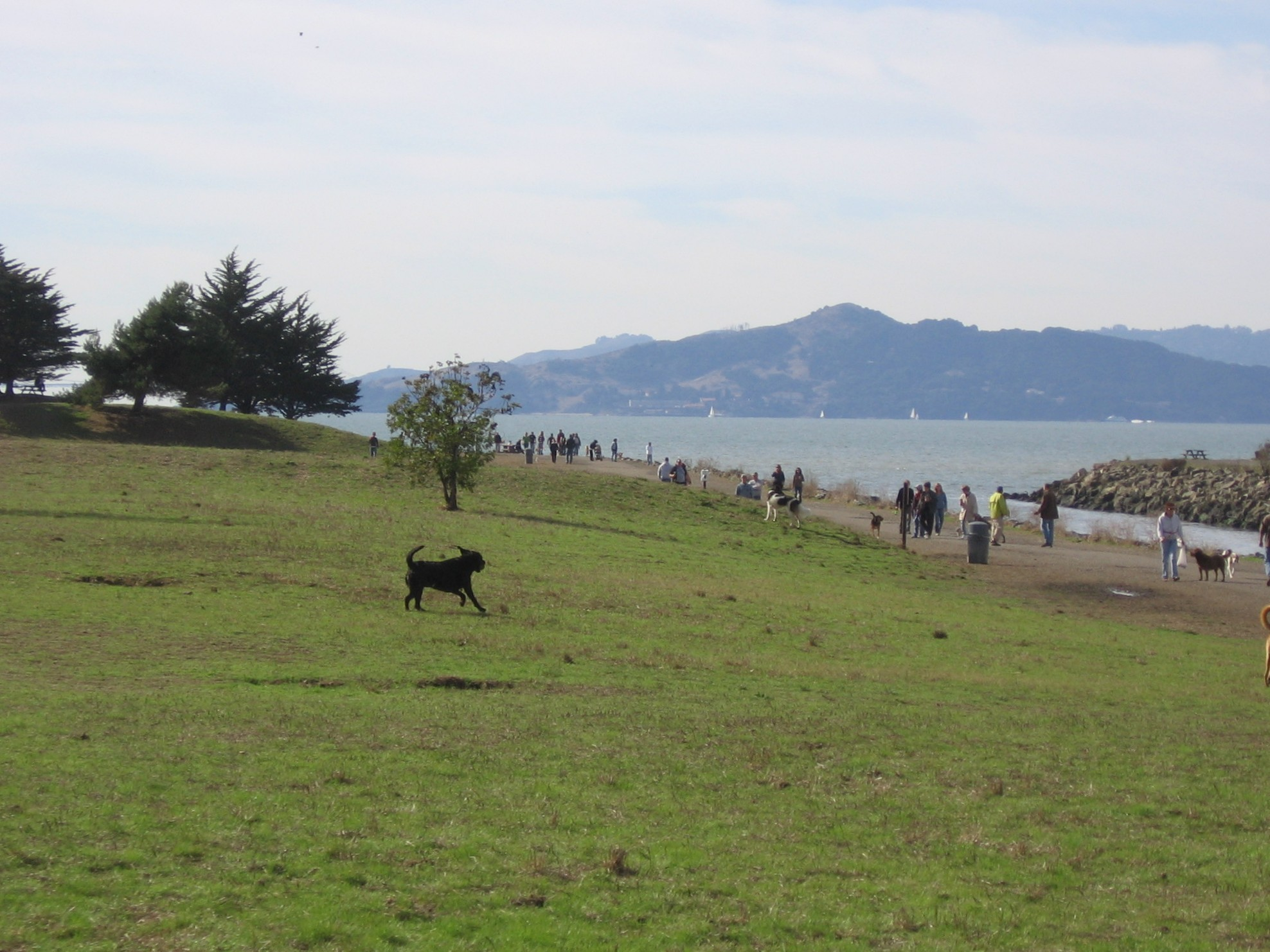 A picture taken of Point Isabel California in November 2006. I am the author.